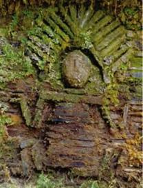 Relief in Gran Pajaten